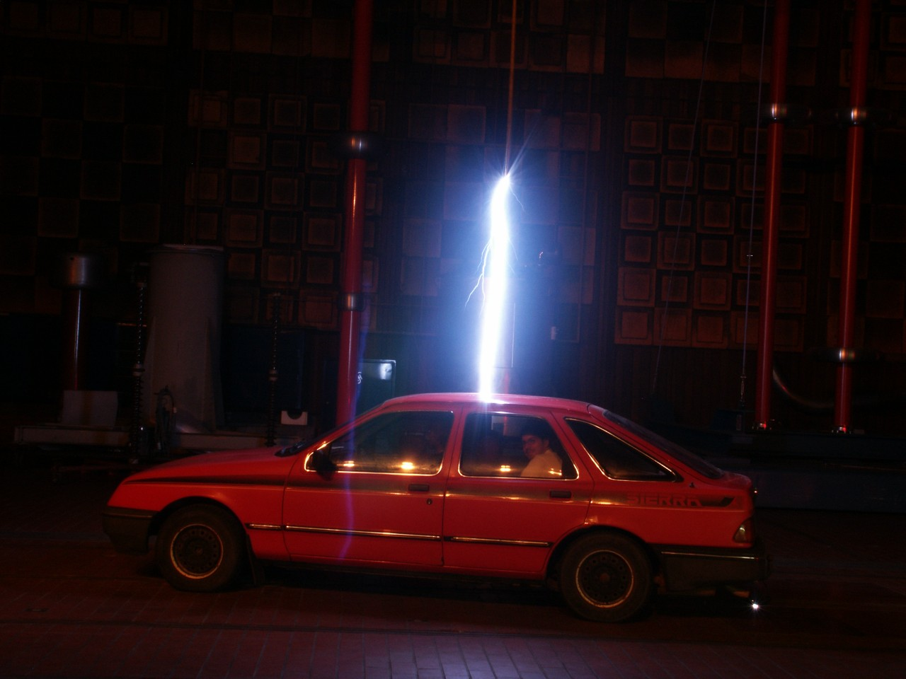 a car as a faraday cage